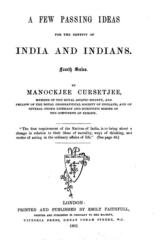 Title page of A Few Passing Ideas for India and Indians (1862) by Manockjee Cursetjee.